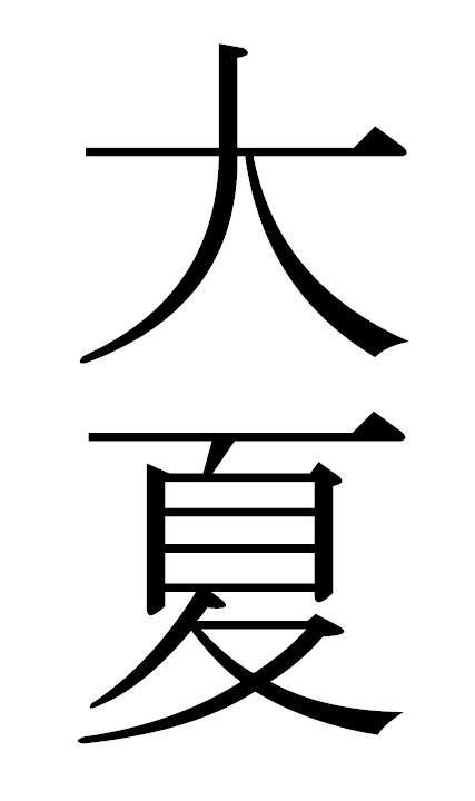 from wiki "Ideograms for Ta-Hia." Ideograms for Ta-Hsia, the ancient Chinese name for Bactria. originally uploaded by User:PHG